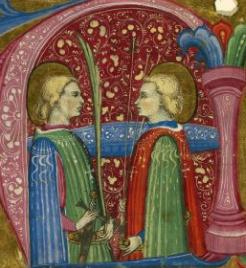 Initial A: Saints Maurice and Theofredus (Chiaffredo), Cremona, c. 1460–1480. Getty Museum.